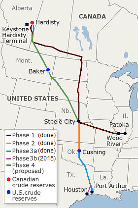 Operational and proposed route of the Keystone Pipeline System. (Data source:TransCanada)